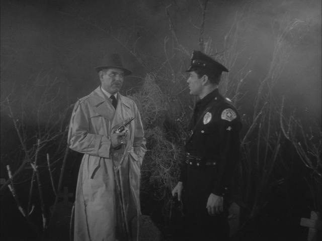 Film: Plan 9 from Outer Space (1959) Director: Ed Wood, Jr. Actors Portrayed: Duke Moore and Carl Anthony. The original 1959 version of this film is public domain, although there may be a copyright on the musical score